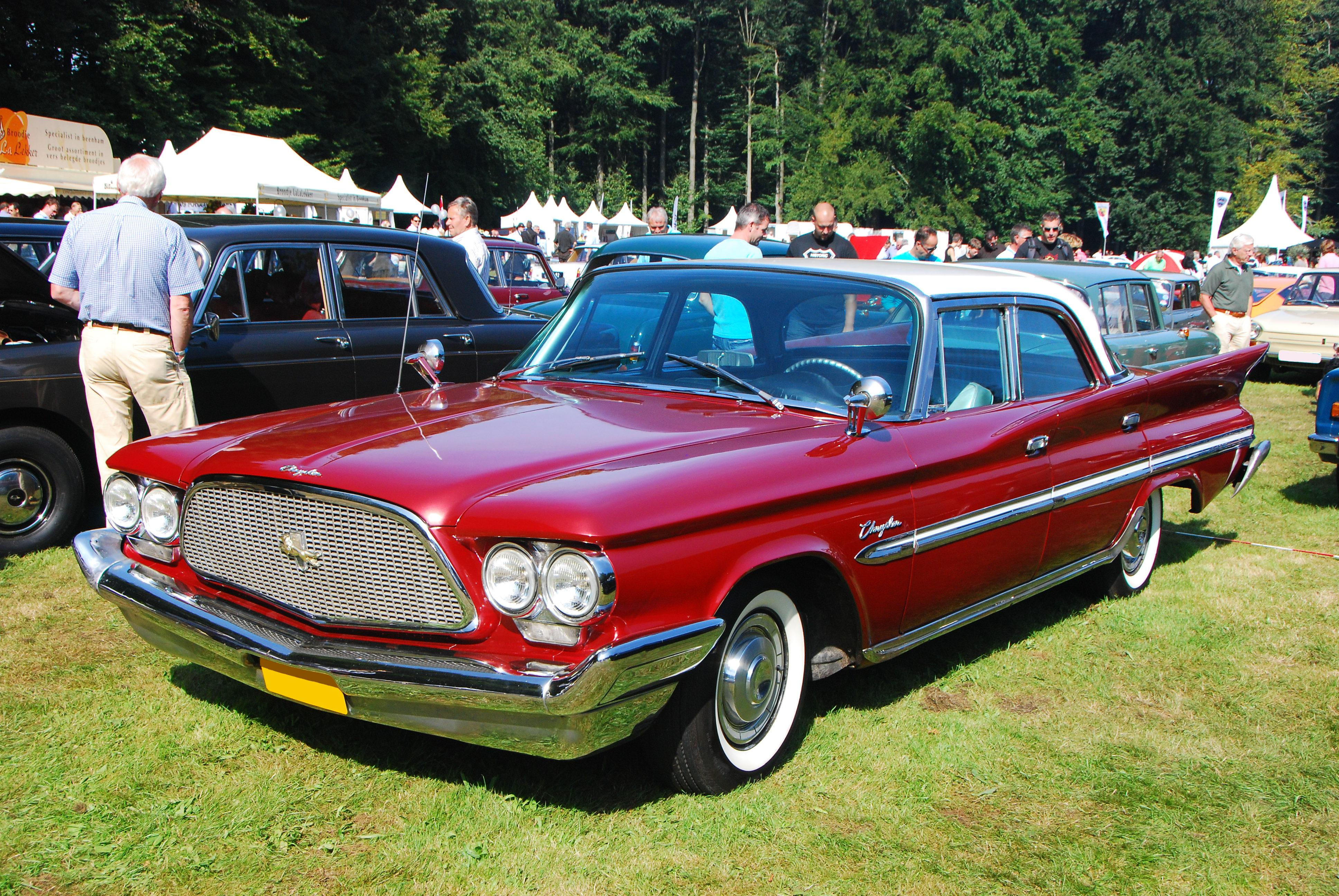 1960 Chrysler Windsor seen during Concours d'Elegance 2008, Apeldoorn (NL)